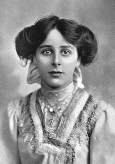 A young white woman, with dark hair in an updo full on the sides; she is wearing a gown with a high lace neck.